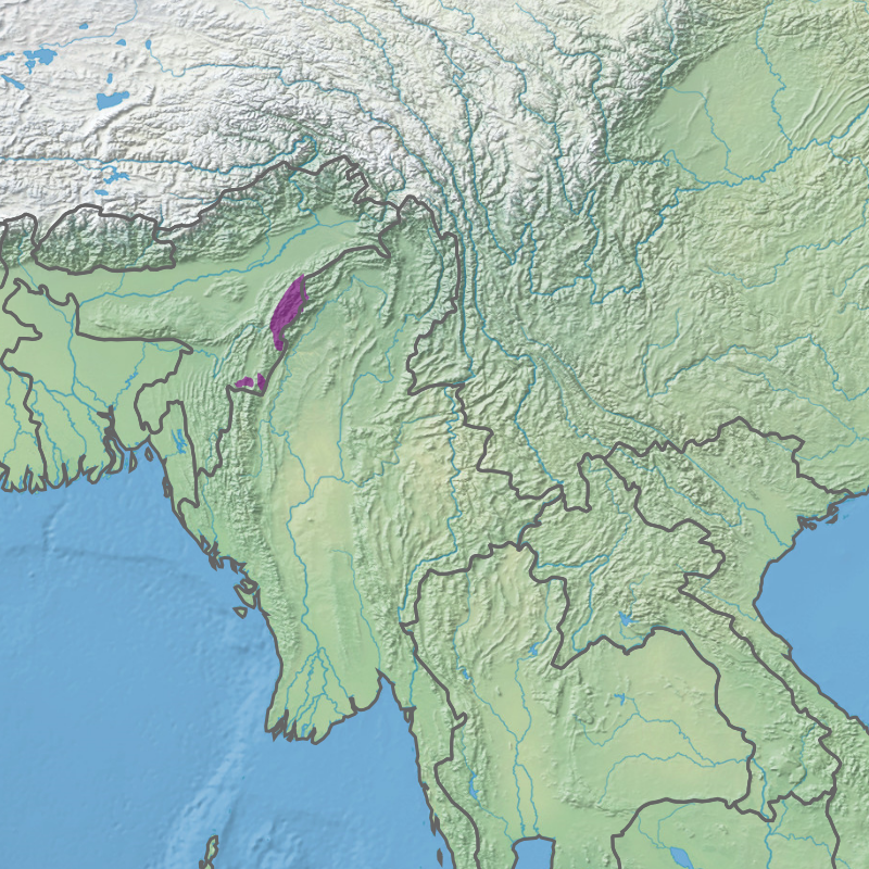 Ecoregion IM0303 - Northeast India-Myanmar pine forests (in purple)